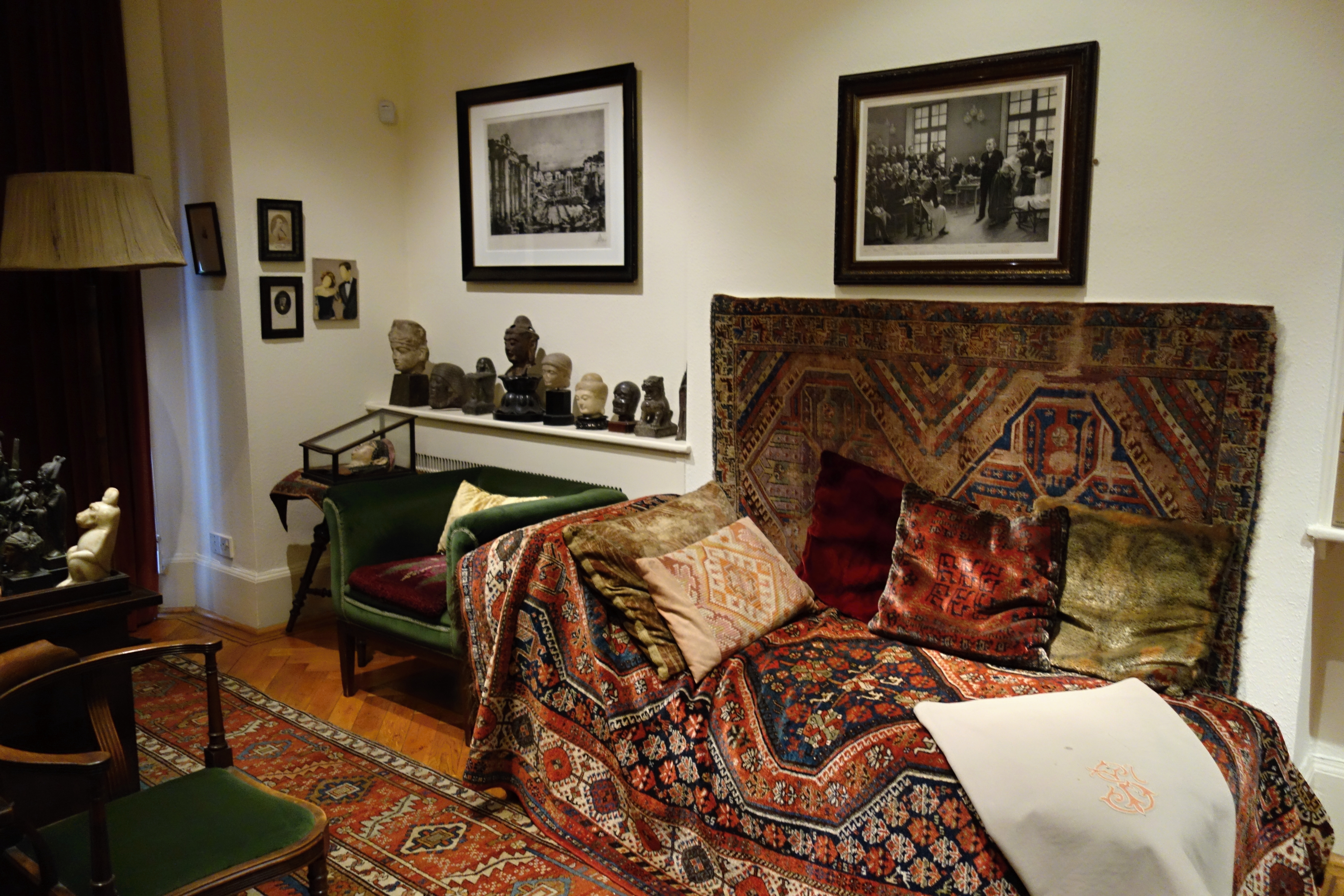 The Study with the legendary couch. Freud Museum London.